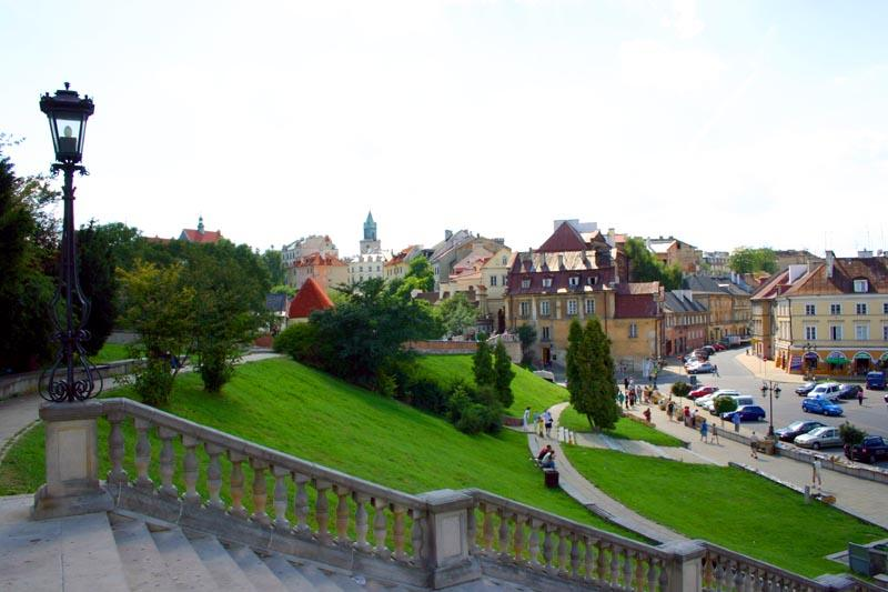 Lublin Castle Square